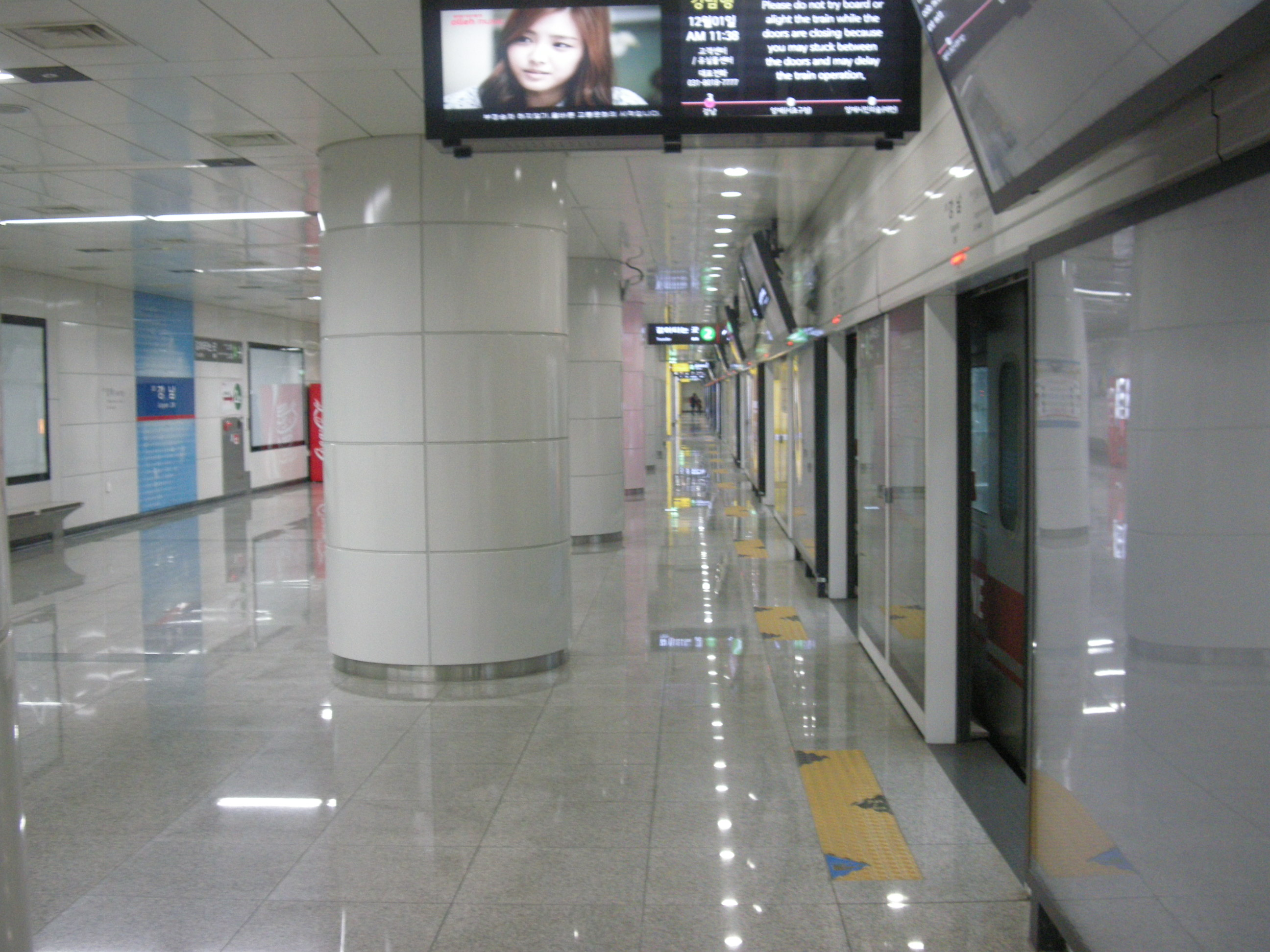 Sin Bundang Line Gangnam Station Terminal Platform